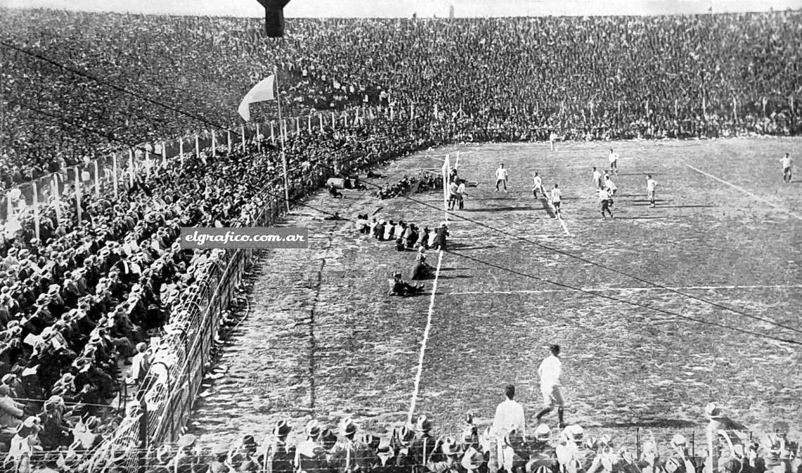 The Gasómetro stadium during the final match.